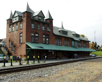 The historic Plattsburgh Delaware and Hudson Railroad Complex, now Amtrak's Plattsburgh Station.